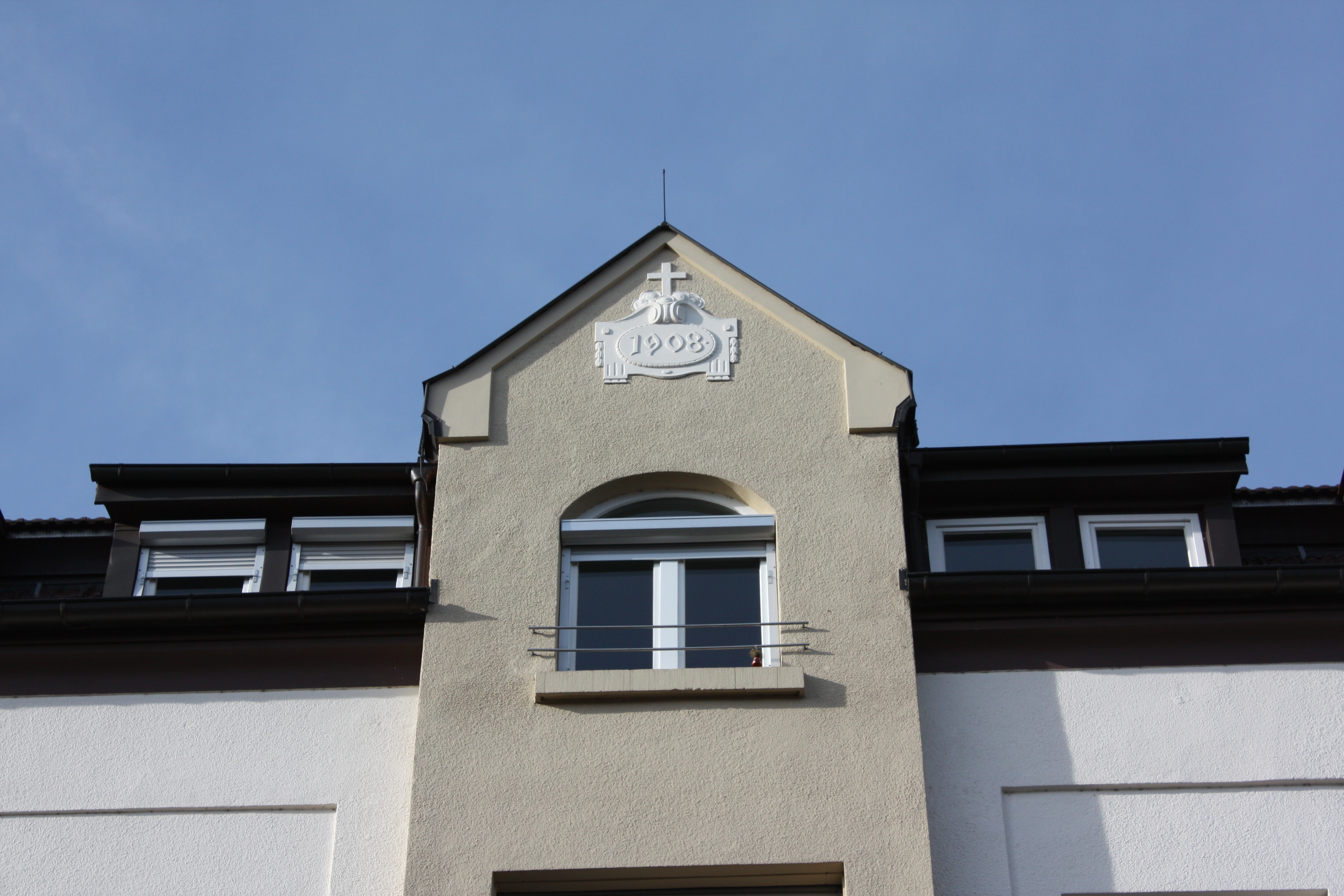 Sankt Loreto (Schwäbisch Gmünd), detail of south facade